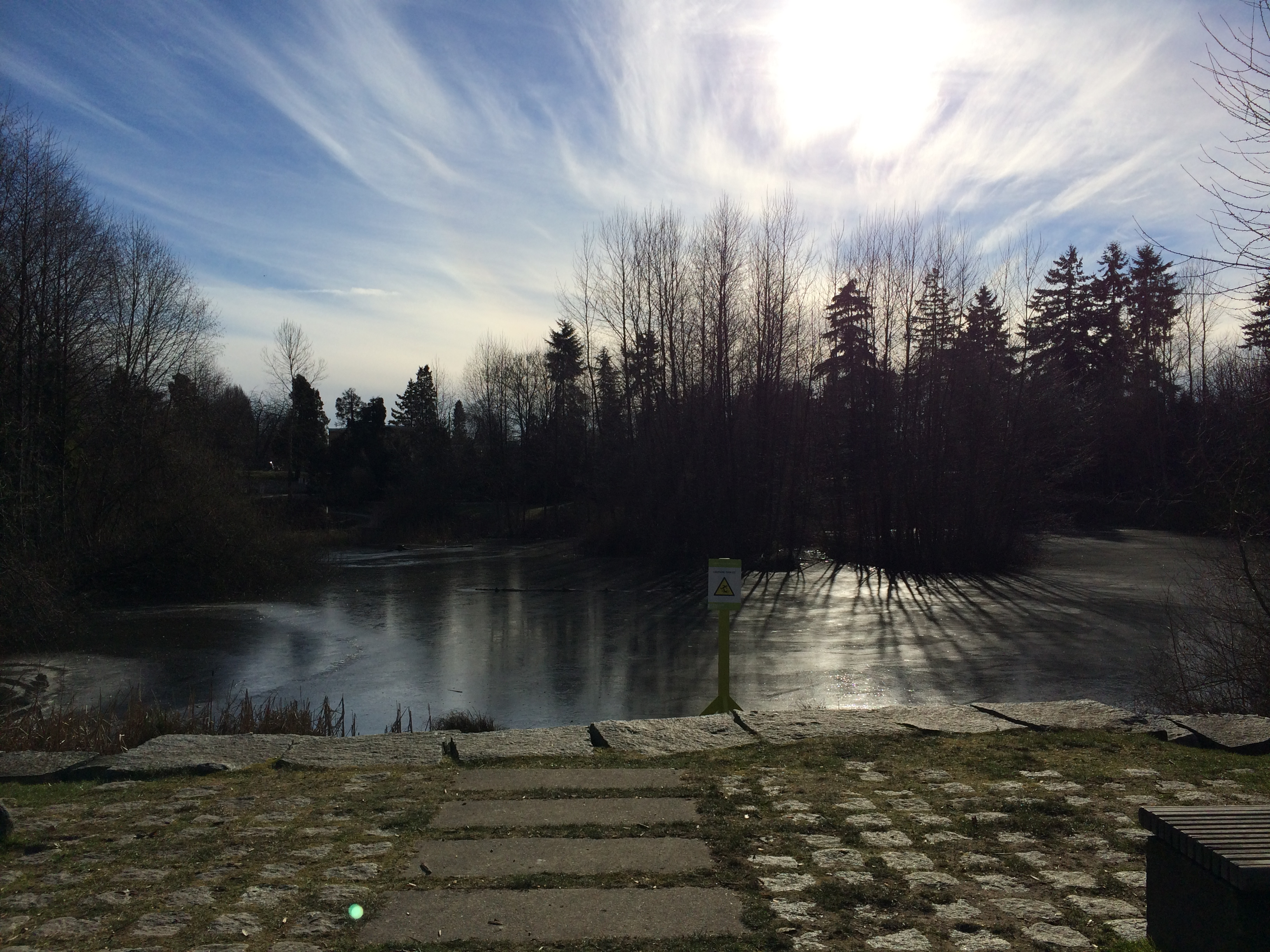 the sanctuary